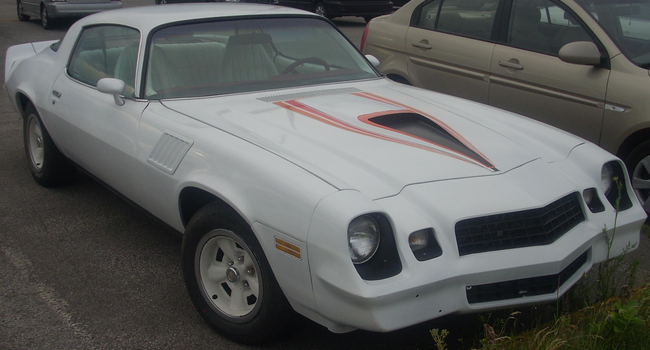 Chevrolet Camaro photographed in Laval, Quebec, Canada at Les chauds vendredis 2010.